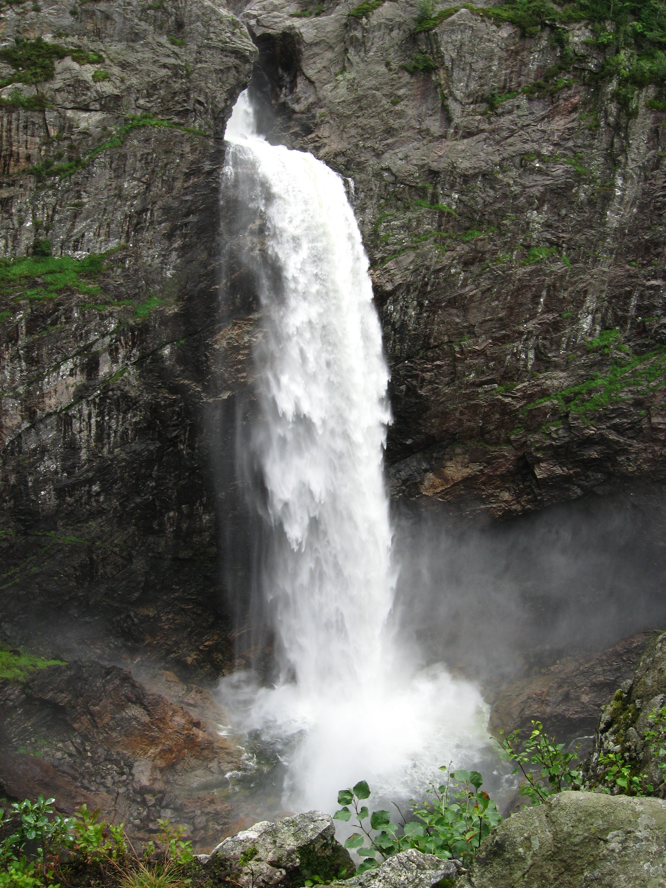 Author: Steffen Mikkelsen